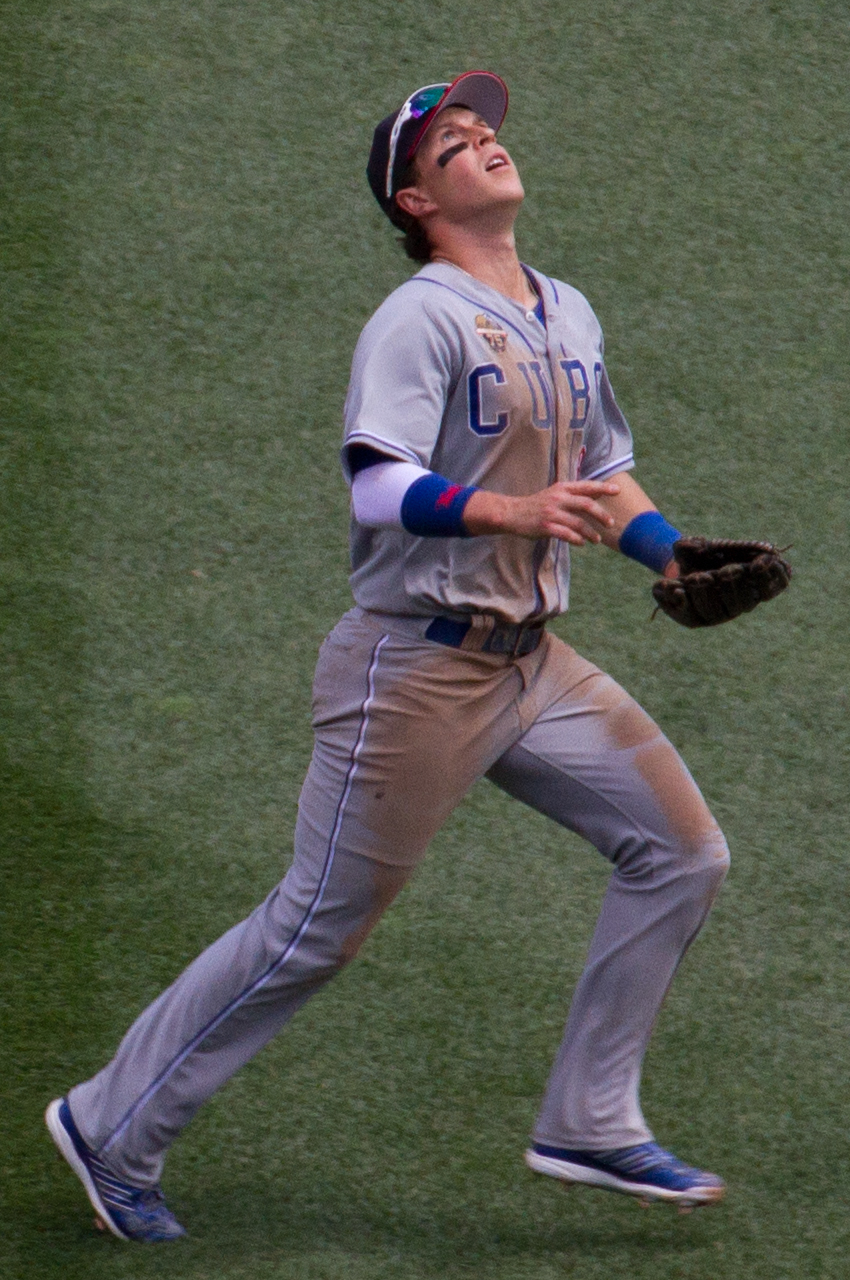 Chris Coghlan